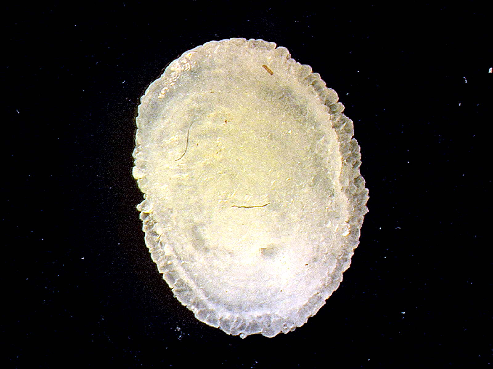 Internal shell of Geomalacus maculosus (dorsal view).